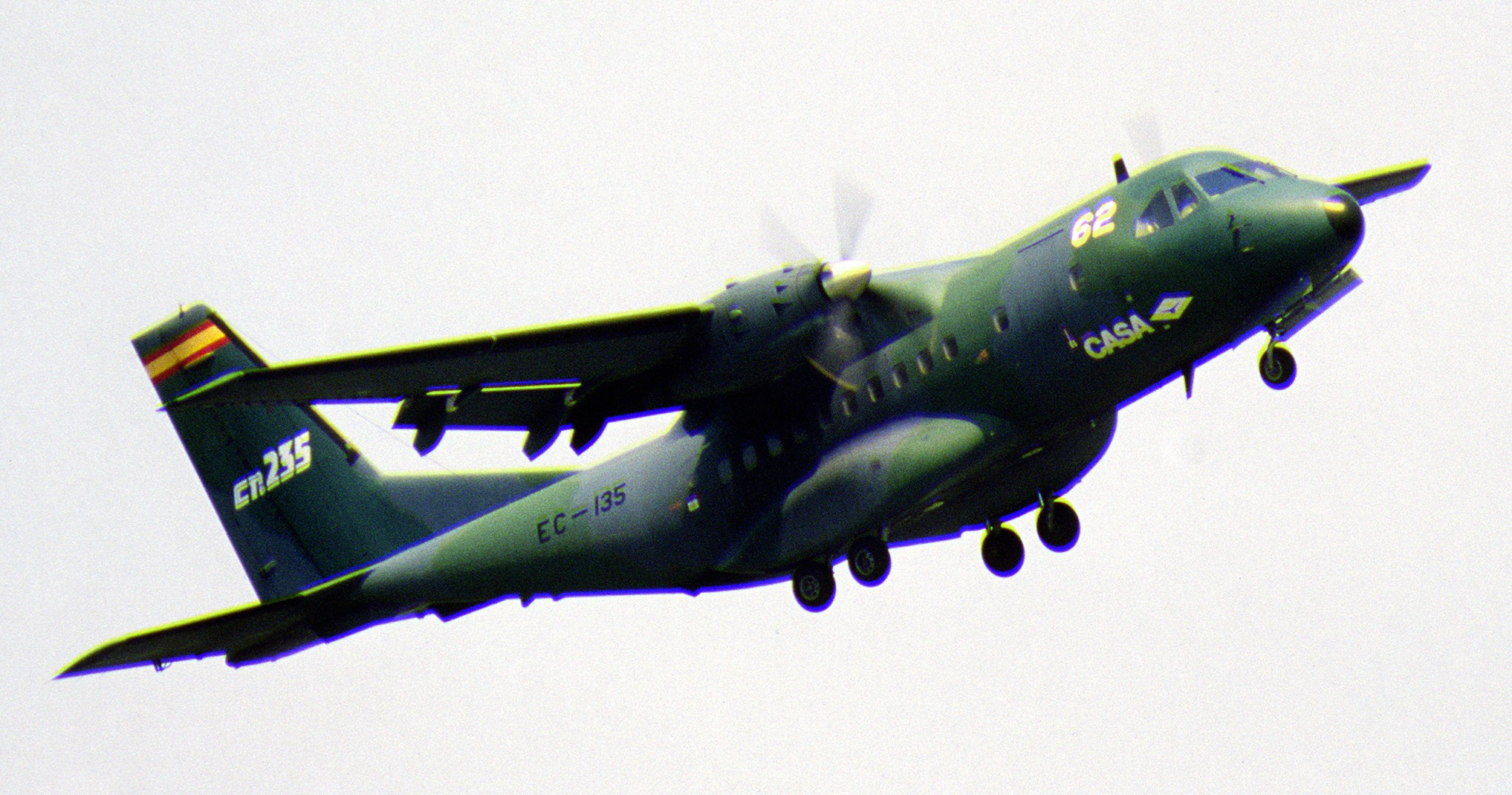 A Spanish CN-235 aircraft flies at the 38th Paris International Air and Space Show at Le Bourget Airfield.